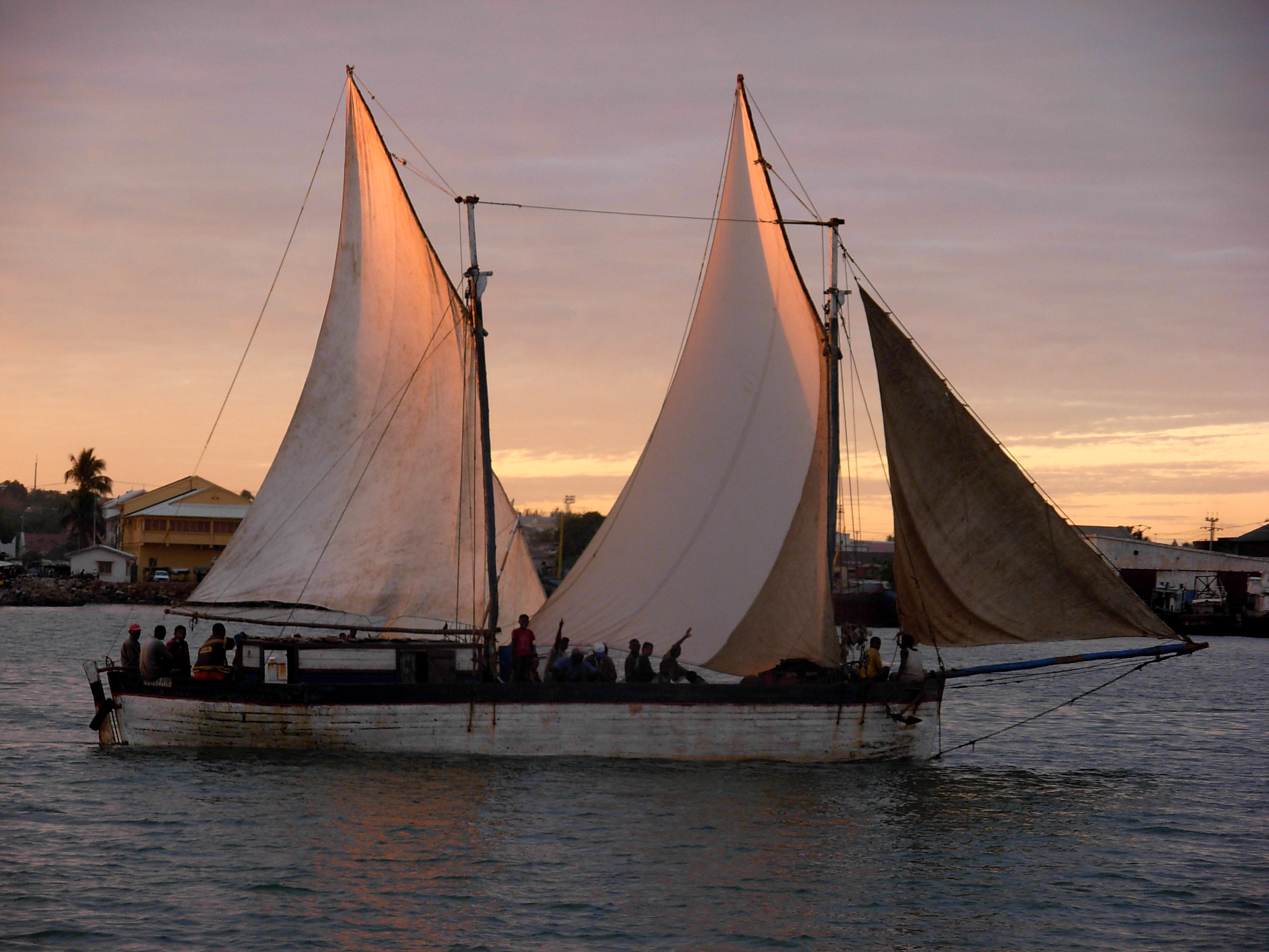 A schooner at Mahajanga, West coast of Madagascar